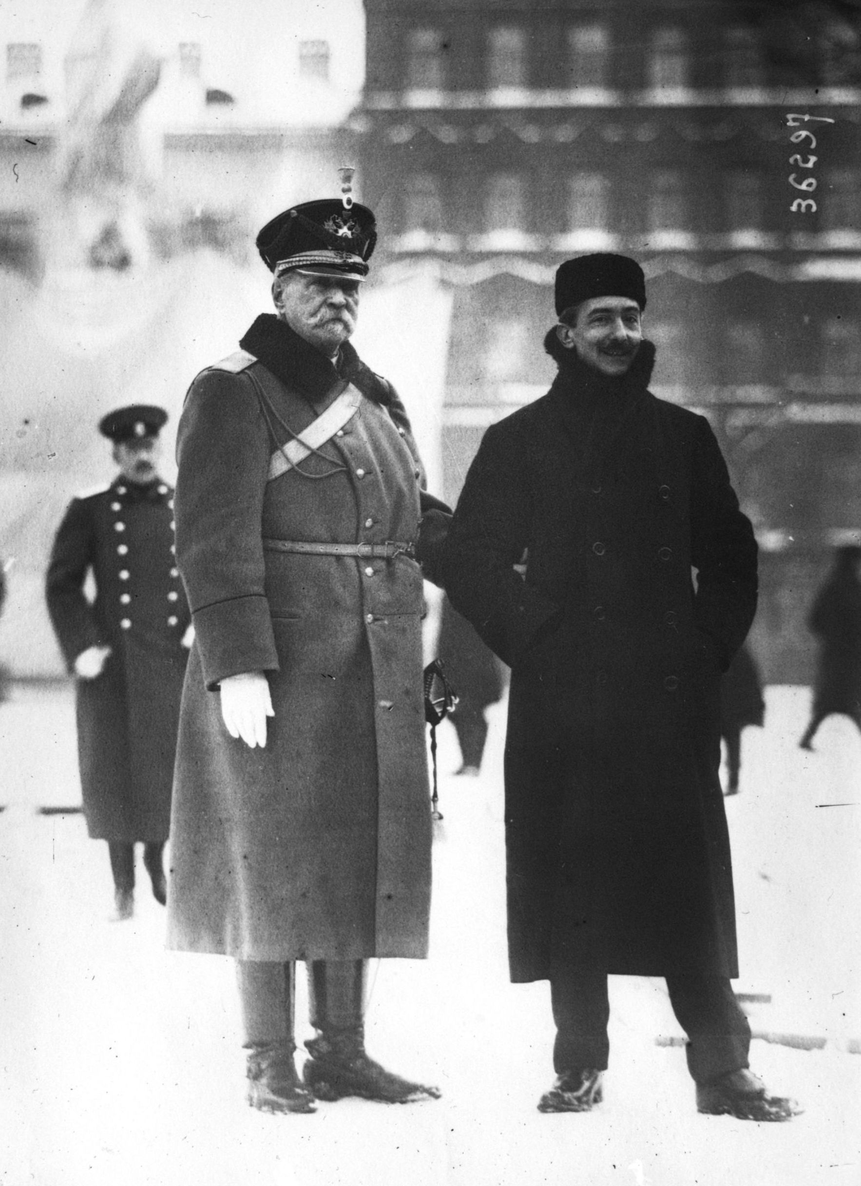 Russian general Dmitry Skalon (1840—1914) and Italian sculptor Pietro Canonica (1869—1959) in Saint Petersburg for the inauguration of the monument to Alexander II of Russia in 1914